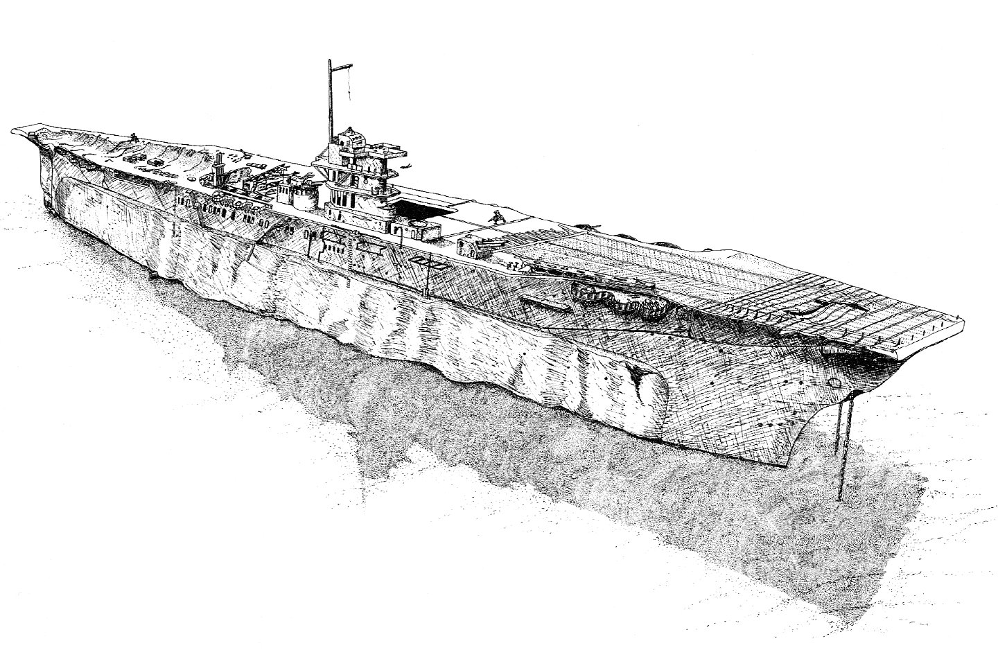 Diver's sketch of aircraft carrier Saratoga, in 180 feet of water, on the bottom of Bikini Atoll lagoon. Sunk by the Baker shot of Operation Crossroads, July 25, 1946.